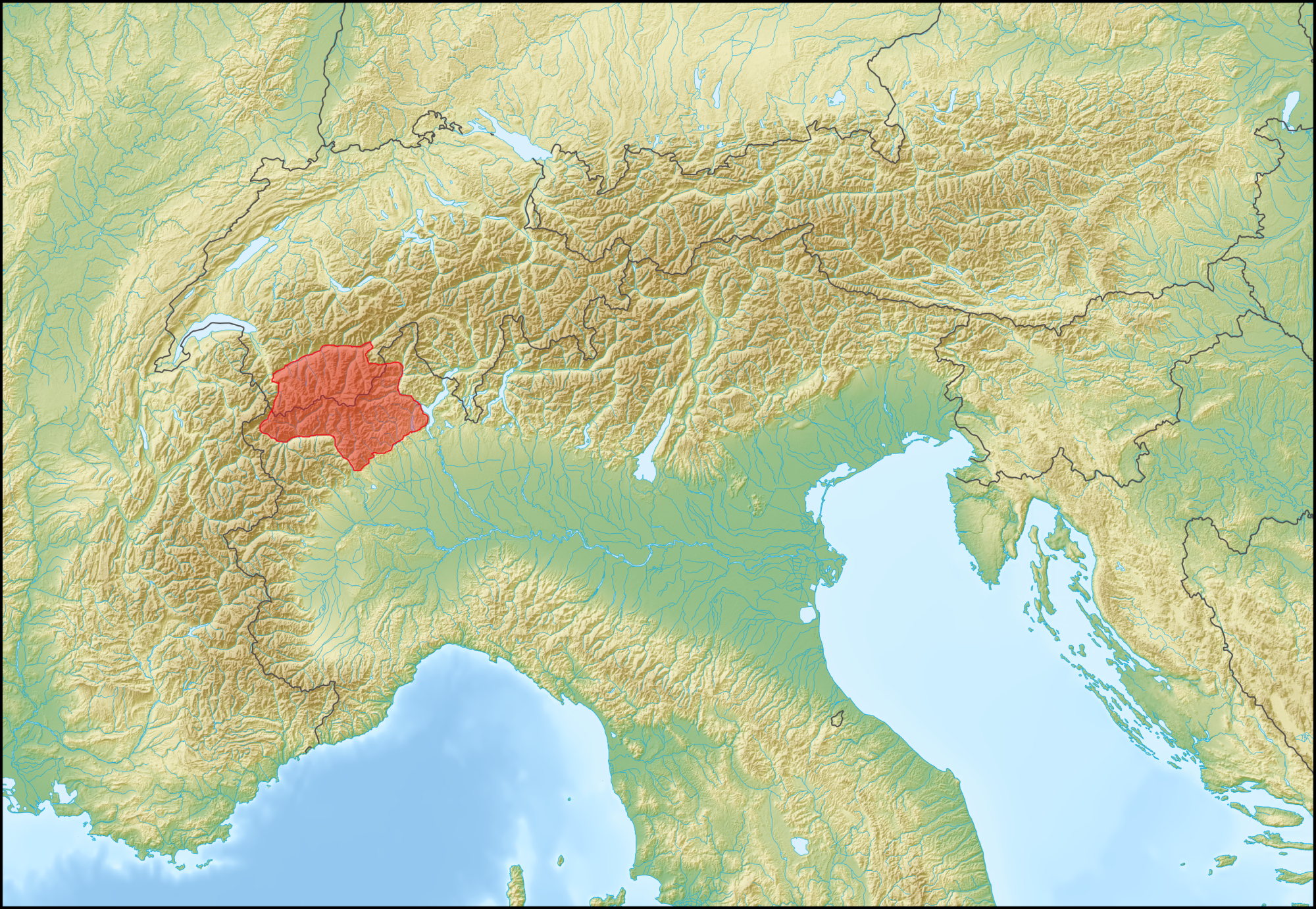 The location of the Pennine Alps (red) in the Alps